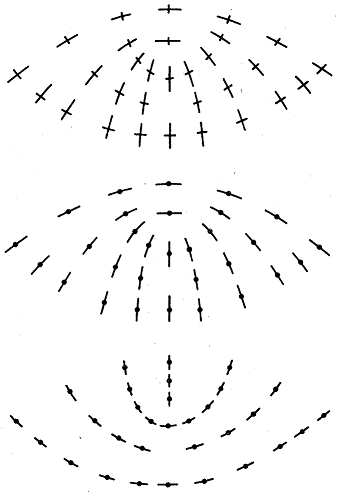 Classes of stable defects in biaxial nematic crystals